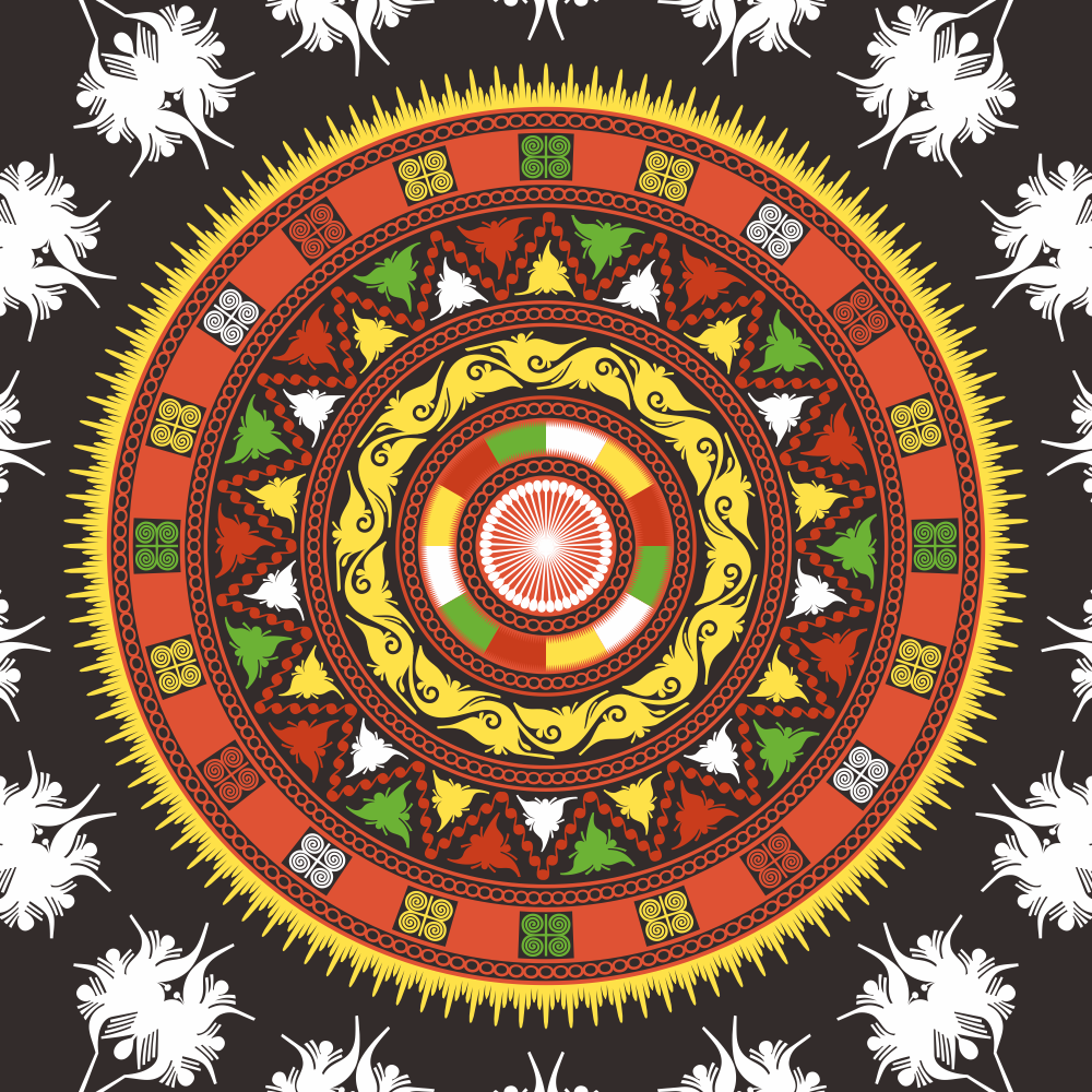 Kerawang, a traditional pattern of the Gayo people, featuring the shape of a mandala